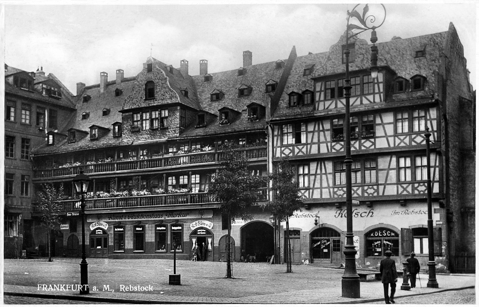 Frankfurt on the Main: House Im Rebstock 3 (At the Rebstock 3, to the right), Im Rebstock 1 (At the Rebstock 1, to the left) and the court facade of the house Markt 8 (Market 8, truncated at the very left) as seen from the intersection of Braubachstraße (Braubach street) / Domstraße (Cathedral street)